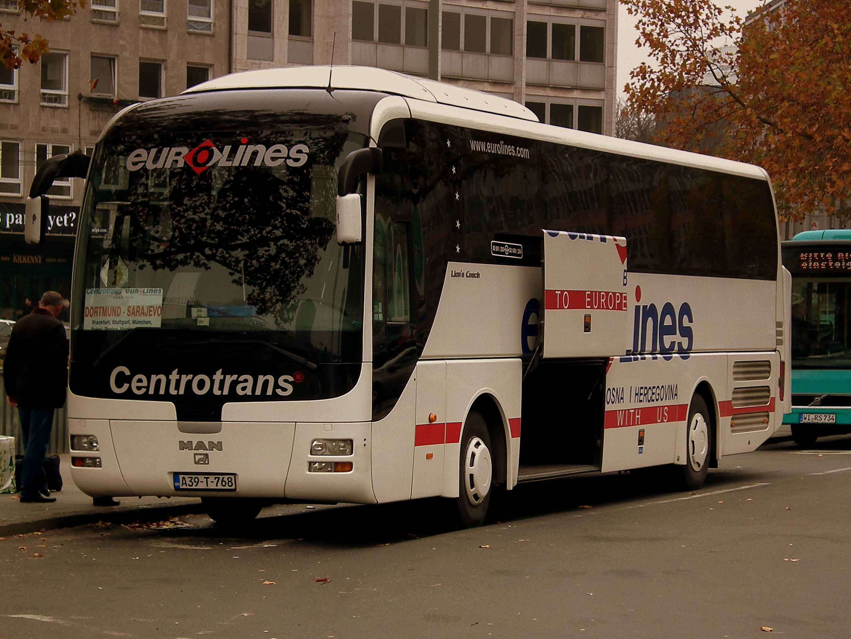 EUROLINES MAN COACH AT FRANKFURT MAIN HAUPTBAHNHOF NOV 2011